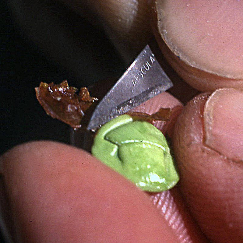 Acer platanoides embryo explanted